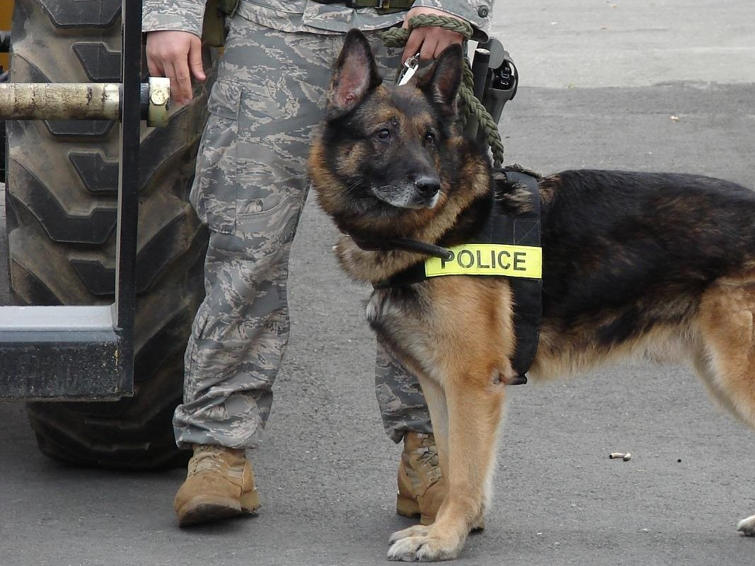 Police dog on duty at Elmendorf Air Force Base, AK, United States